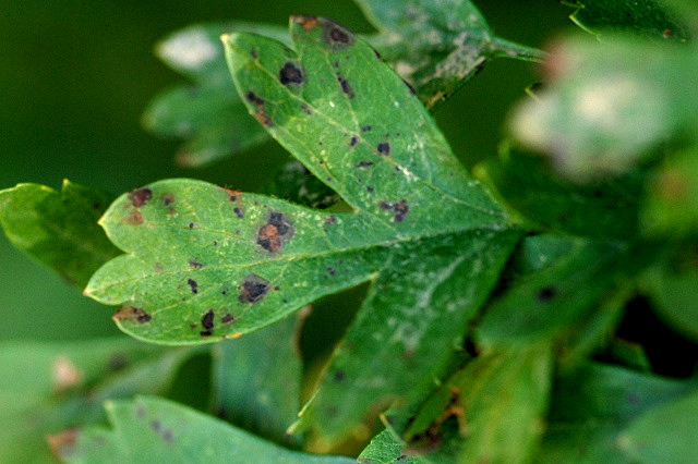 Diplocarpon mespili from Commanster, Belgium. If you think this is a different taxon, please contact James Lindsey.